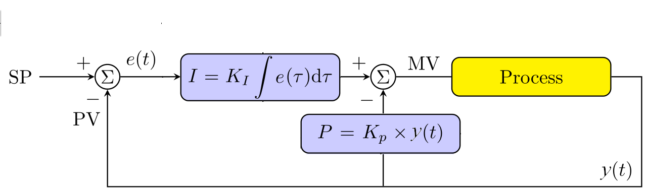 Basic block of Pseudo-derivative feedback (PDF) controller, modifed from File:PI controller.svg